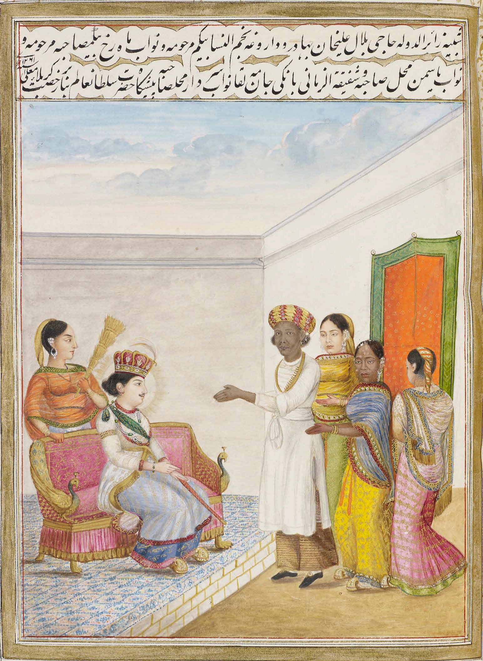 African eunuch (3rd from left) and African queen Yasmin (2nd from right) at the court of Wajid Ali Shah. Royal Collection Trust / © Queen Elizabeth II 2013